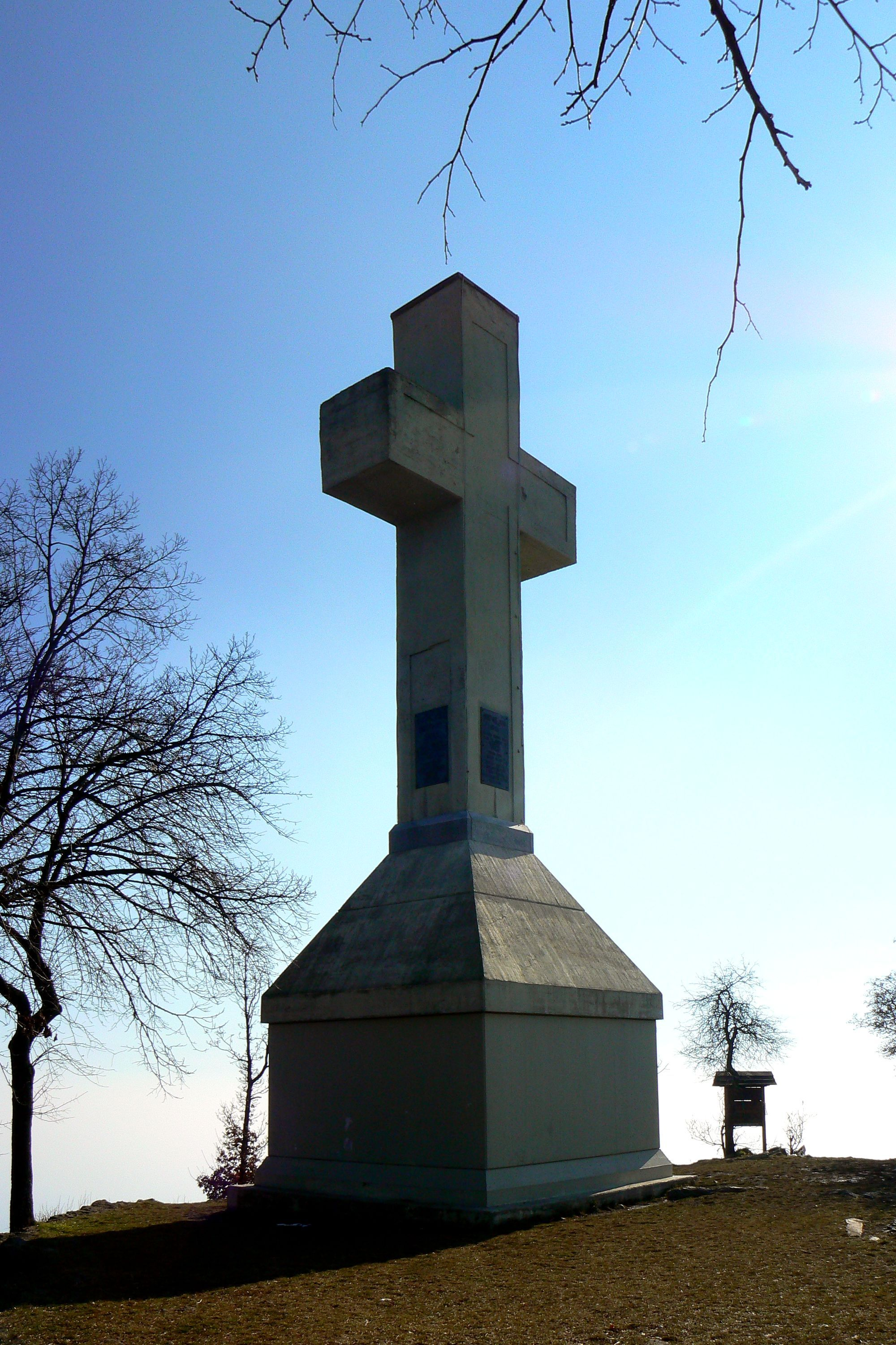 Concrete cross on top of Mount Musinè, Susa Valley, Piedmont, Italy This is a photography of Natura 2000 protected area with ID IT1110081